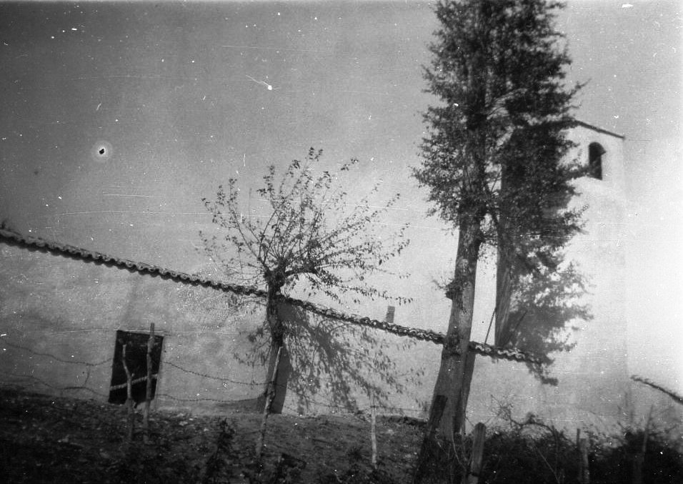 Church in the village Sermenin (Gevgelija Municipality), 1931 This media file is produced by Wikipedian in Residence in Category:Wikipedian in Residence at DARM in 2016.